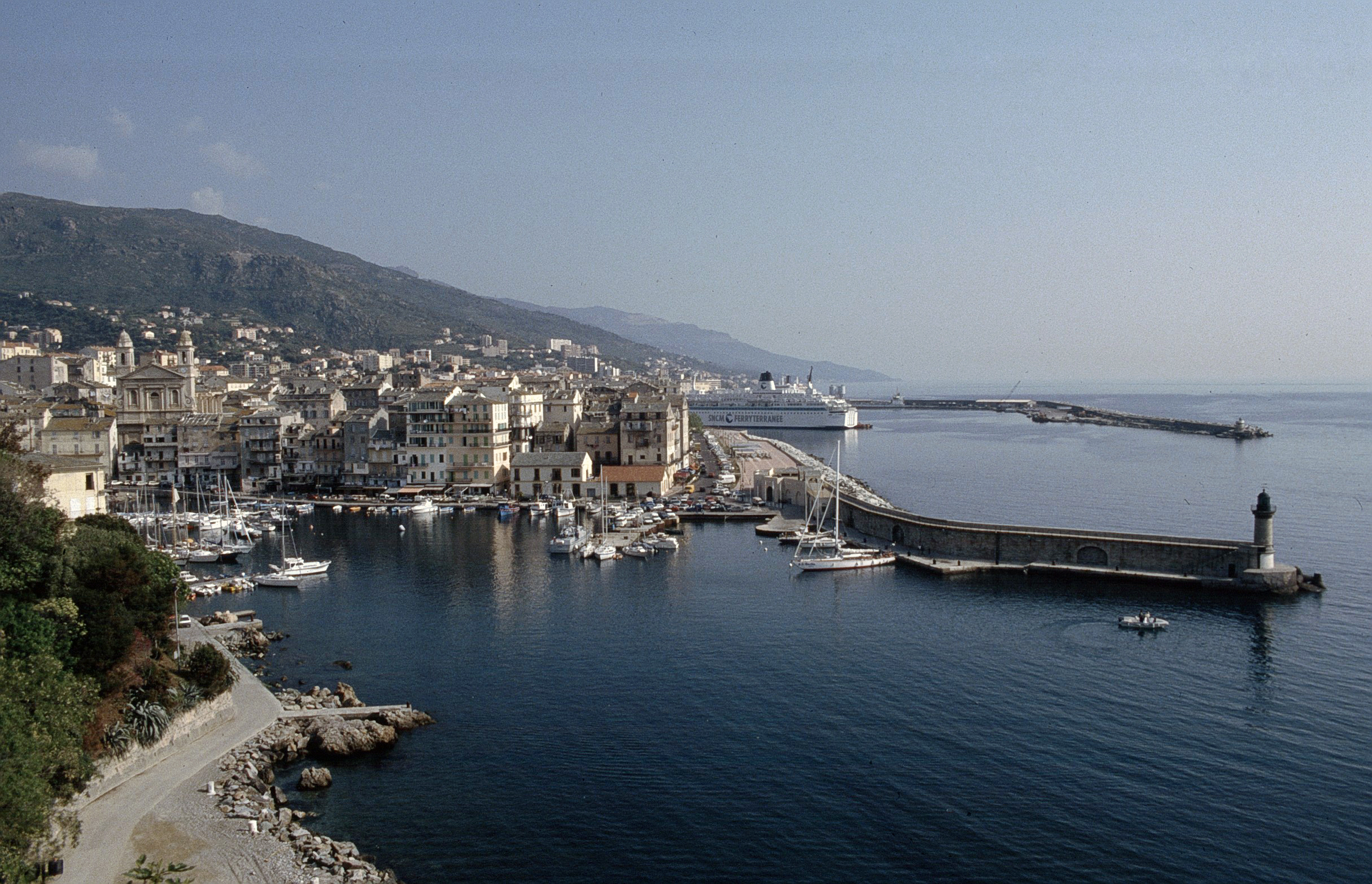 Port of Bastia